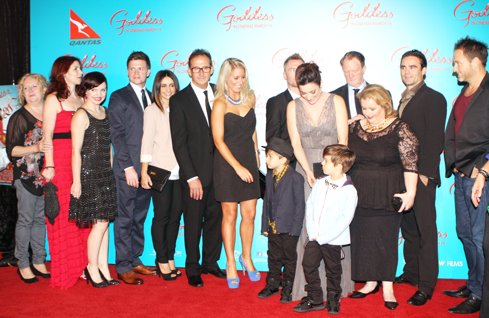 'Goddess' world premiere - Red Carpet event; Bondi Junction, Sydney, Australia.